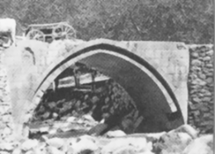 An old bridge over Getar River in Yerevan, Armenia